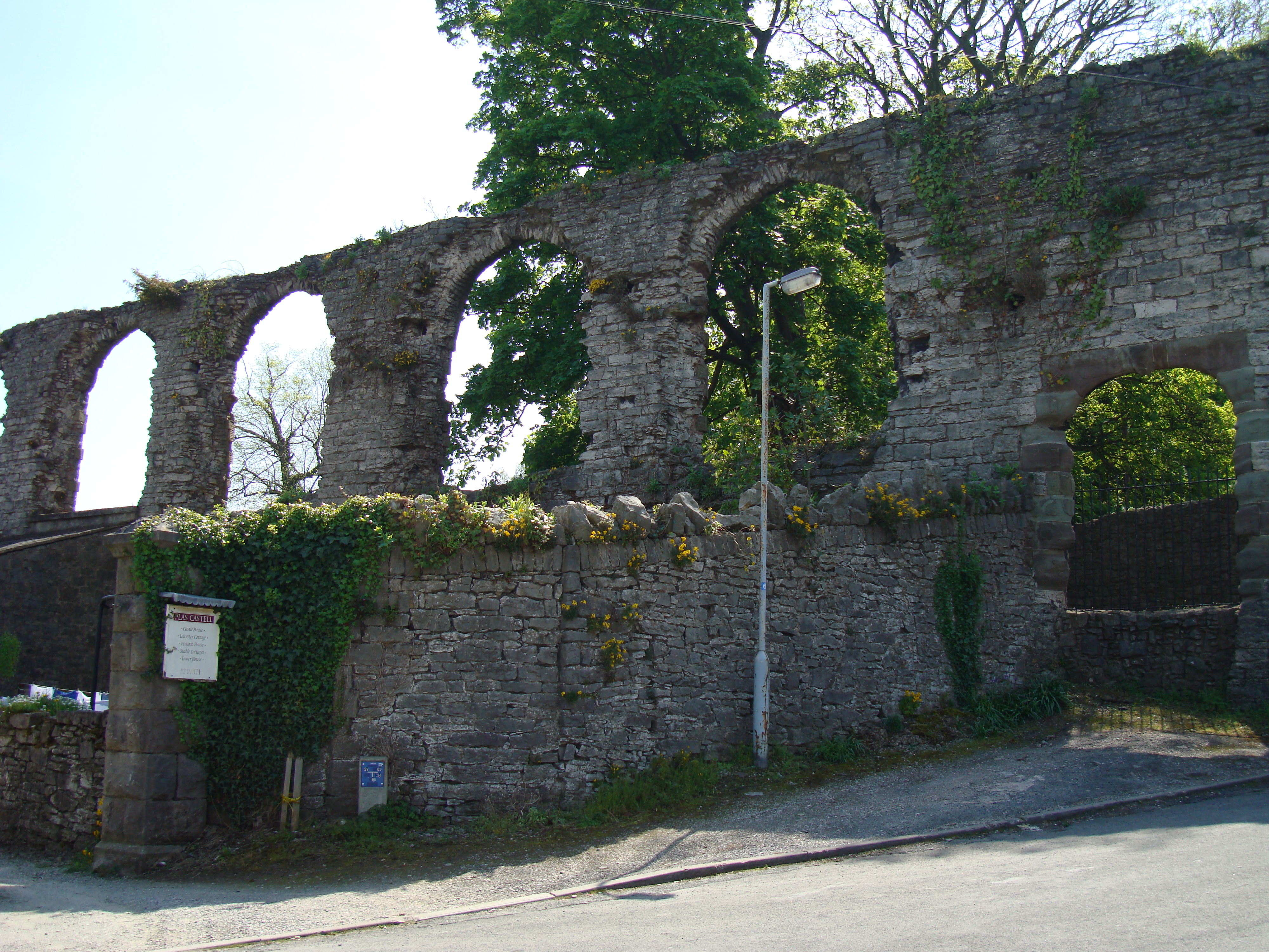 Photograph of Leicester's Church, Denbigh, Denbighshire, Wales